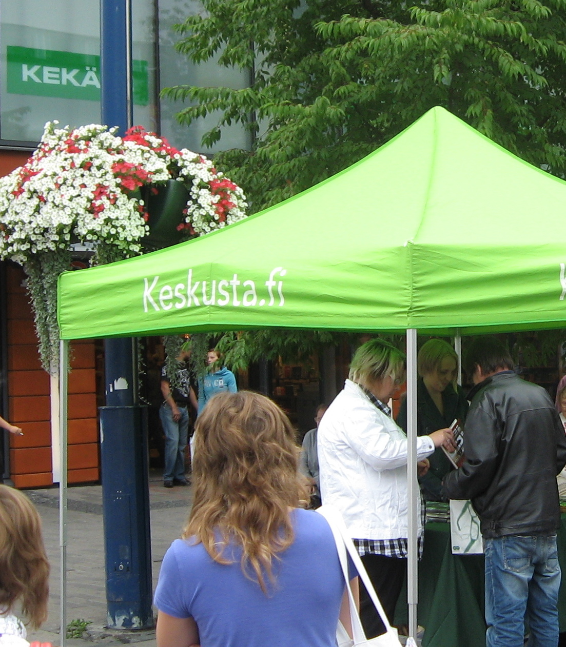 A stall for Keskusta on street Kauppakatu, Jyväskylä.